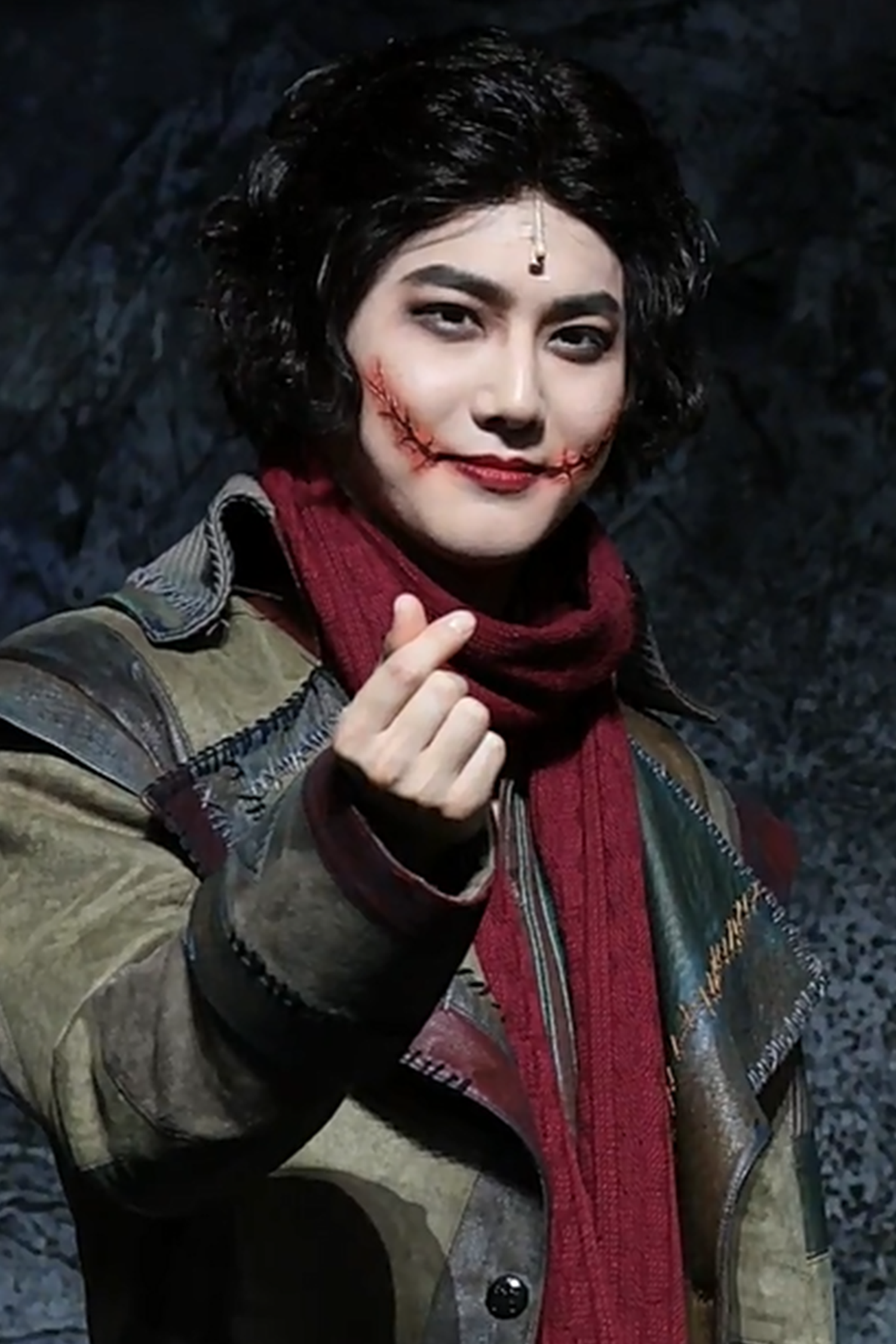 Suho during the collective of the musical "The Man Who Laughs", held at Blue Square Interpark Hall on September 7, 2018.